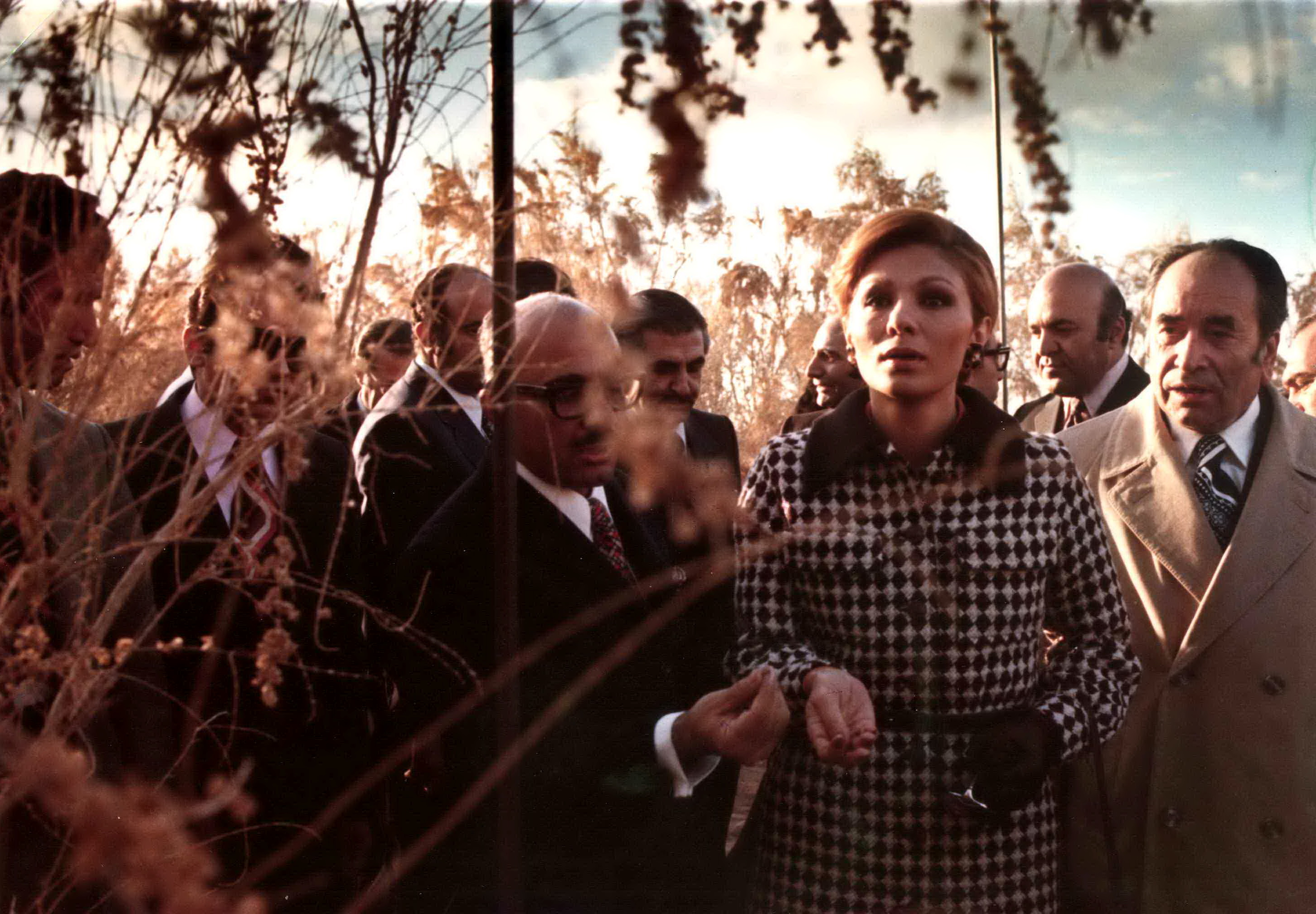 Farah Pahlavi in Haresabad of Sabzevar November 30 1974